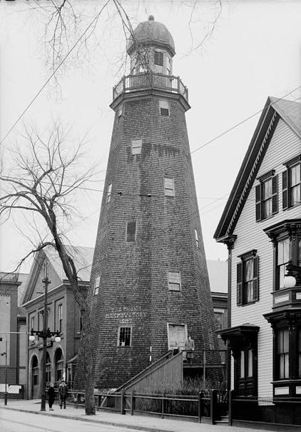 Portland Observatory, general view exterior (west elevation) - HABS ME,3-PORT,7-1